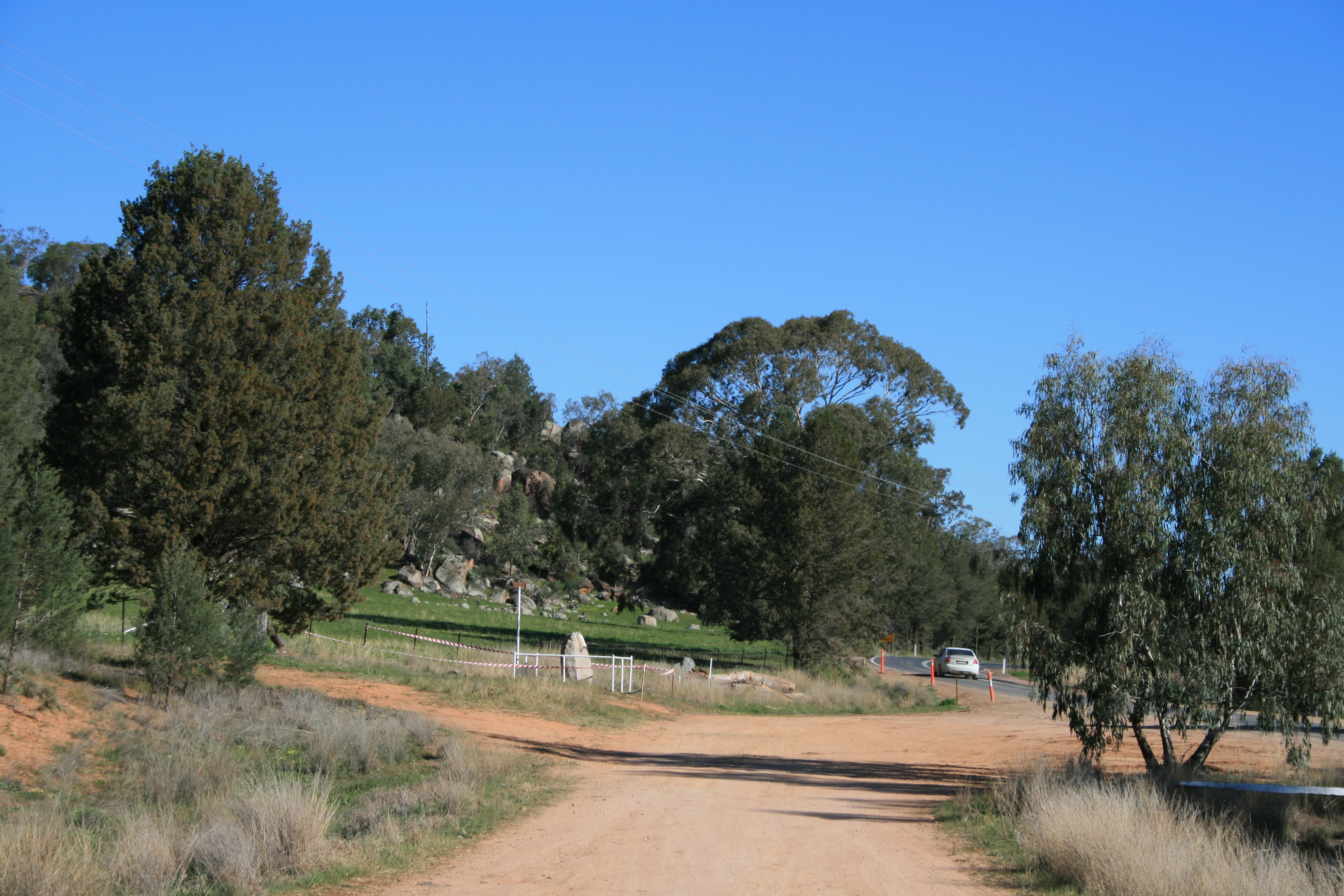 Escort Rock near Eugowra, New South Wales in Australia - The place where the gold escort was held up on 15 June 1862. Frank Gardiner and his gang stole gold-dust and notes to the value of about £14000. Other bushrangers involved were Ben Hall and John Gilbert. It was the only big gold-escort robbery ever carried out in New South Wales. Some of the money was recovered and several of the robbers were arrested.